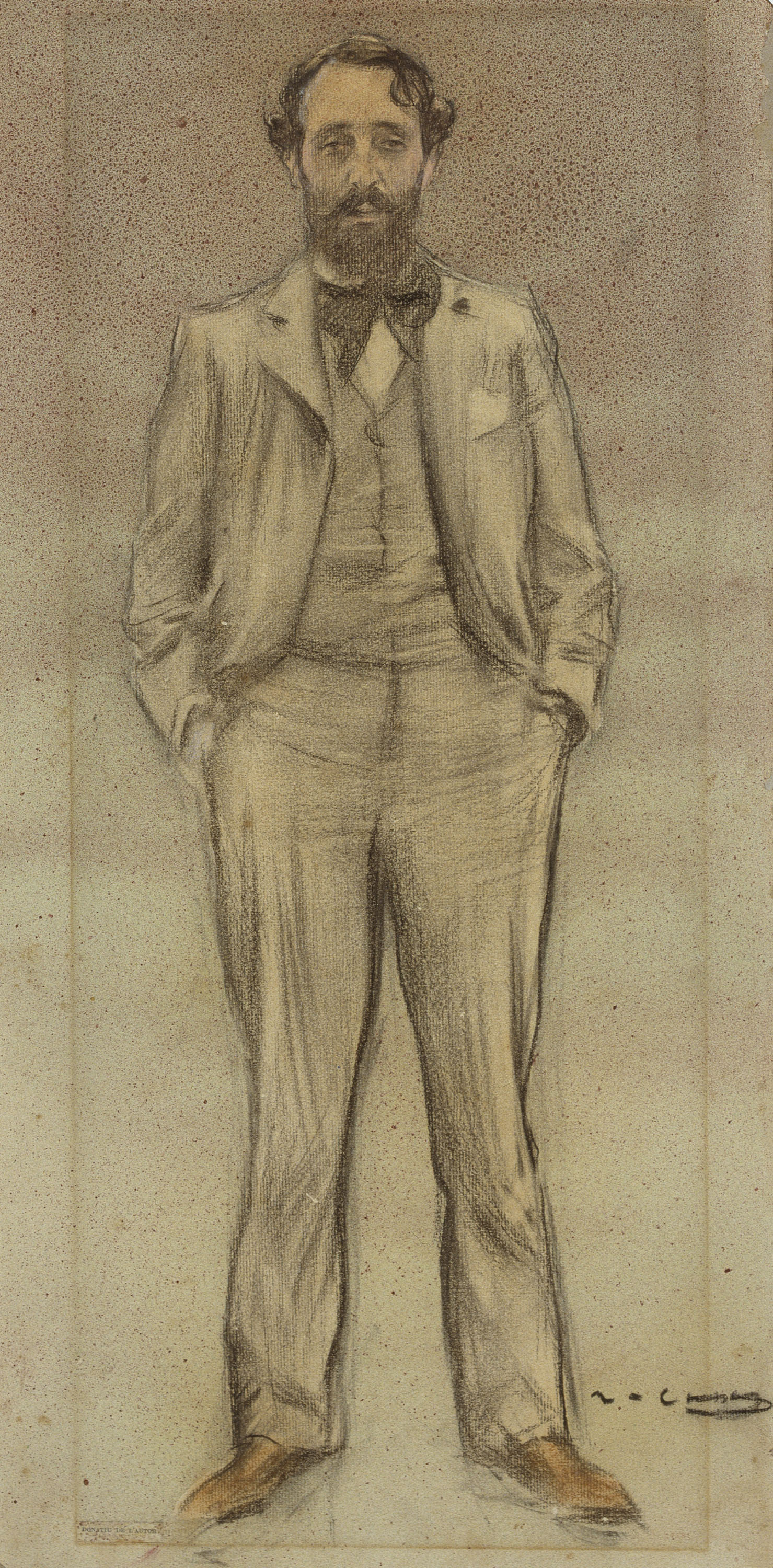 Portrait by Ramon Casas conserved at MNAC in Barcelona.